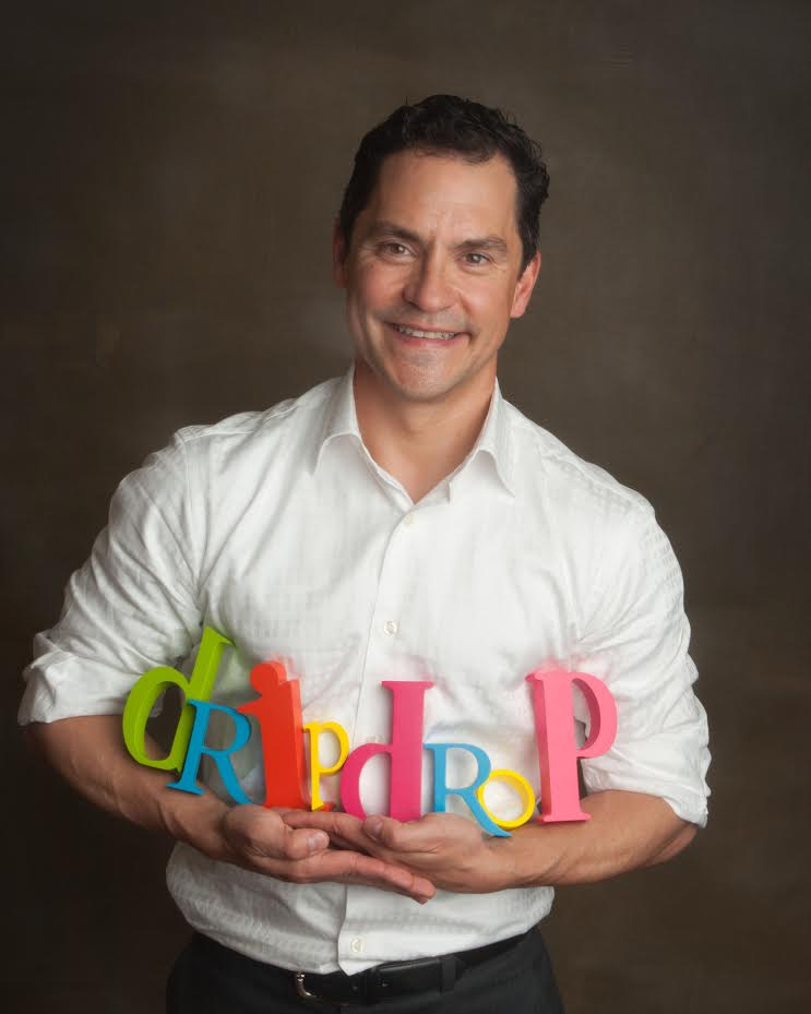 Dr. Dolhun with DripDrop letters